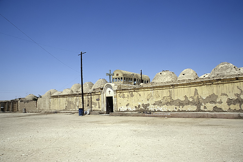 Church in the Monastery of St. Theodore the Warrier, Malqata, Luxor West Bank, Egypt